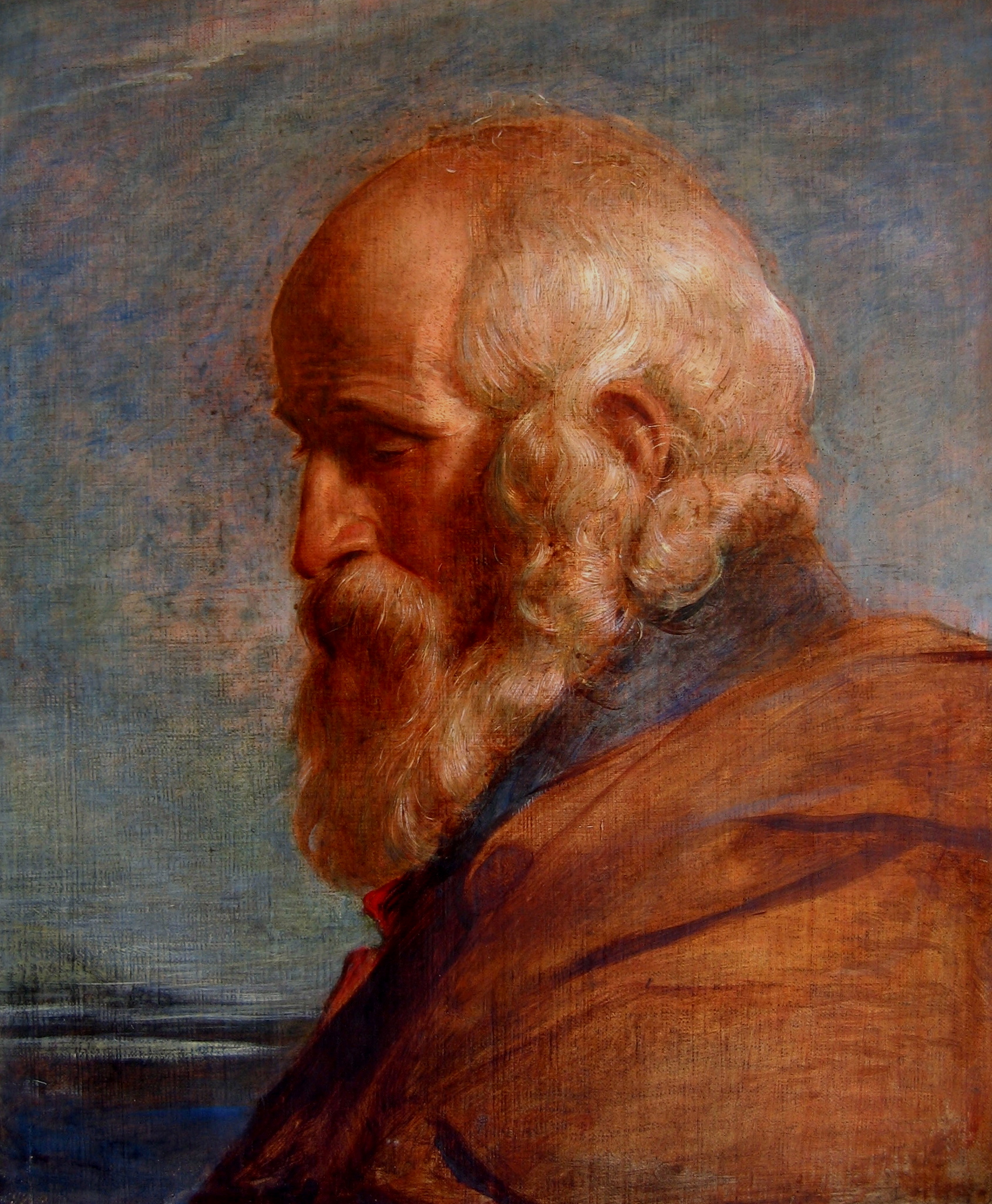 George Richmond Calabrian Shepherd